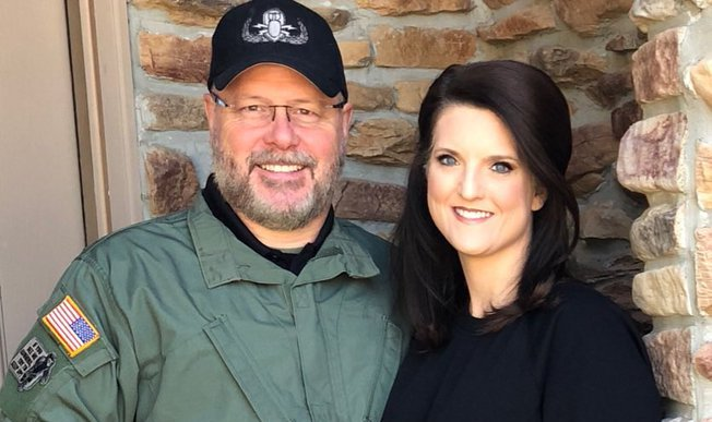 Rick and Stacy Crawford on Veteran's Day